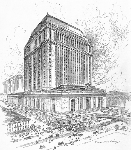 Proposed tower over Grand Central Terminal, 1911.